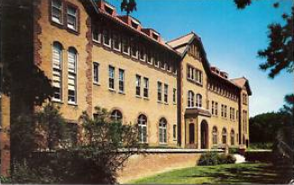 Picture of Residential Hall at Clarke University